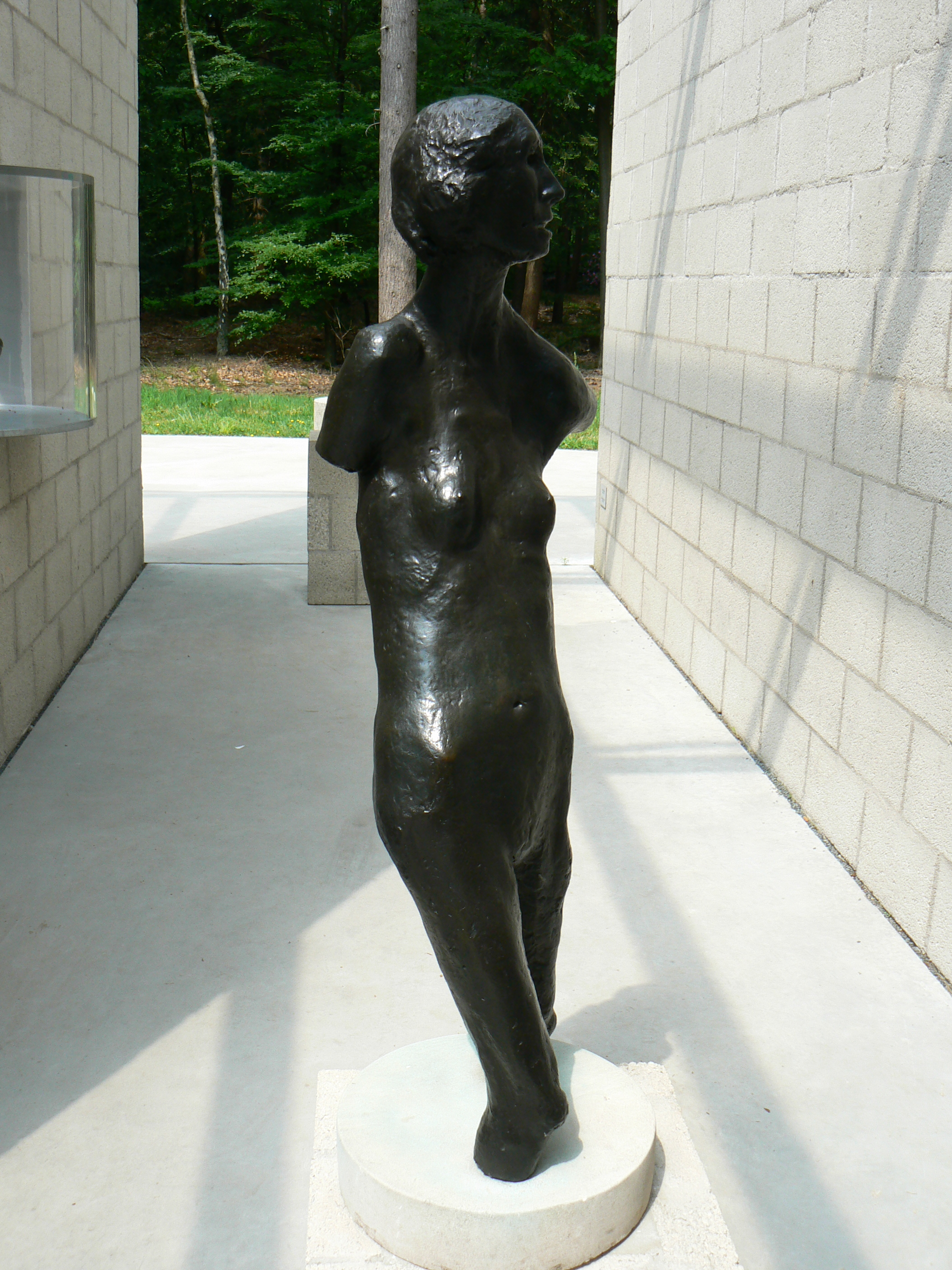 sculpture Vernal Figure (1957) by Ralph Brown in KMM sculpturepark/The Netherlands